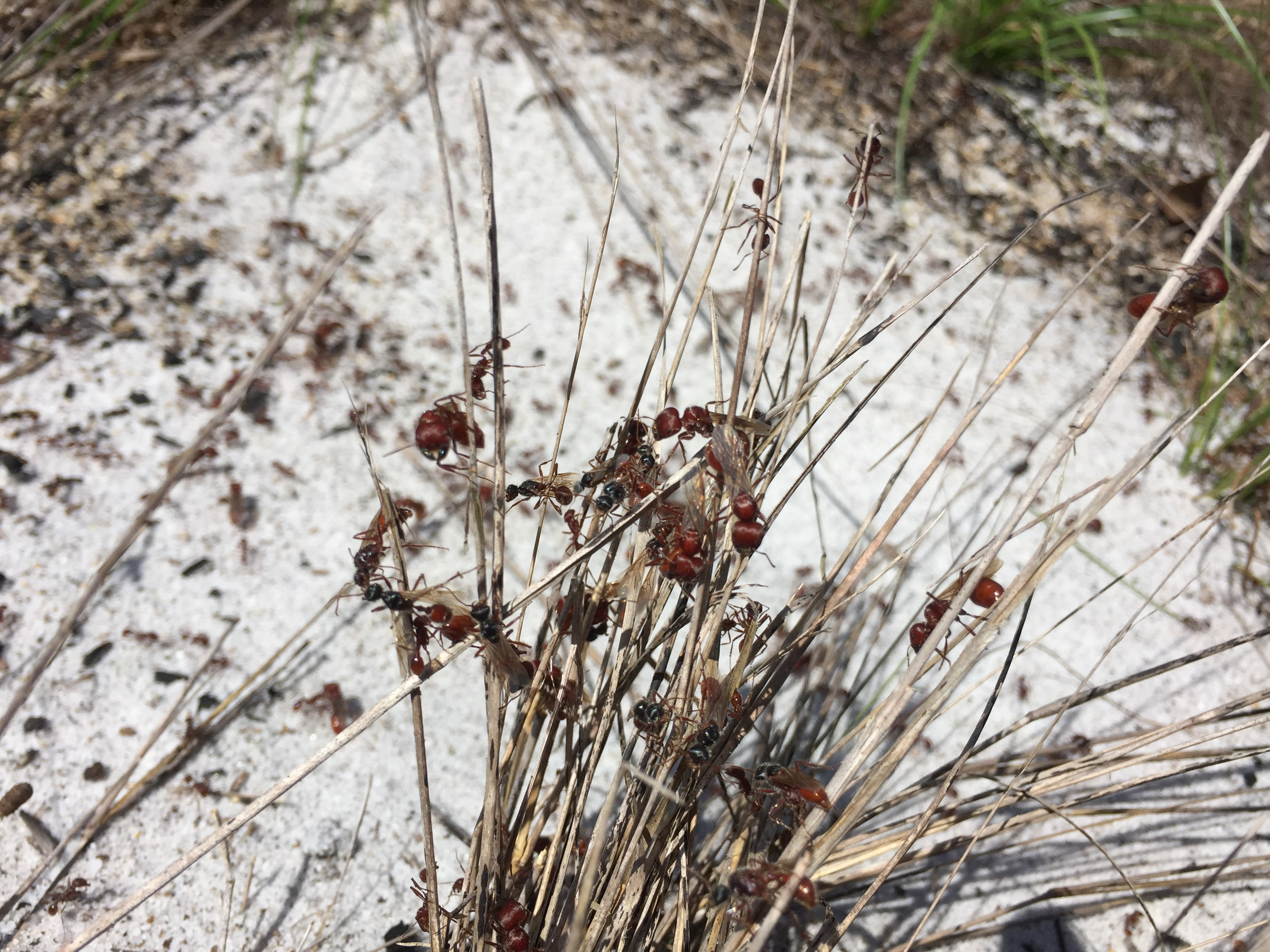 Nuptial flight of the florida harvester ant. Female alates and males are accompanied by workers.